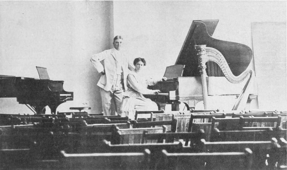 Effa Ellis Perfield and her husband Thomas in one of the classrooms of the Effa Ellis Perfield music school, McClurg Building, Chicago